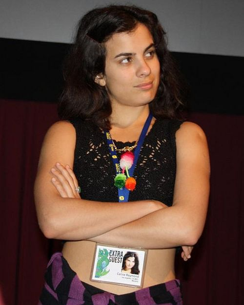 Celine Reymond in Fantastic Fest 2009.